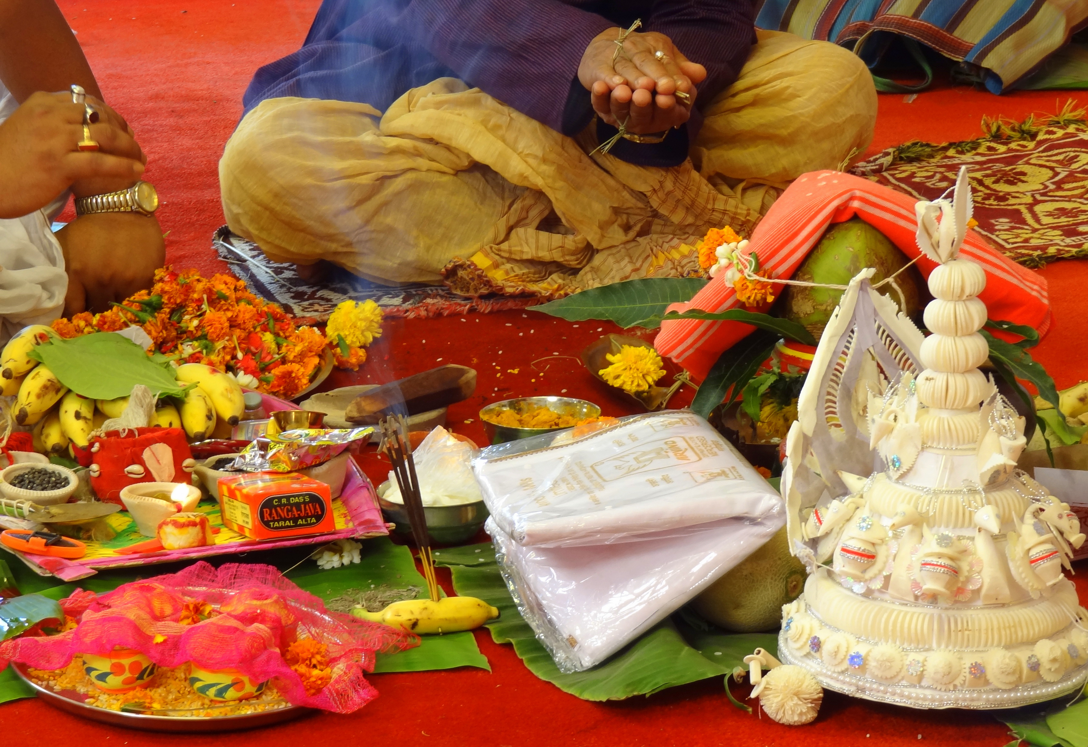 Pre-marriage Hindu rituals taking place before the beginning of haldi ceremony or gaye holud of a Bengali wedding in India. This photo has been taken in the country: India